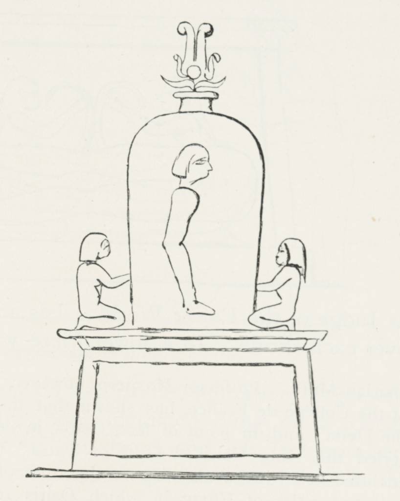 Two figures kneel, bookending an image of a man's head and arm in profile, with a headdress of the god resting on top.